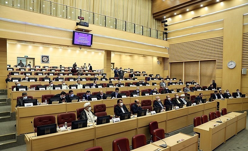 دیوان عدالت اداری